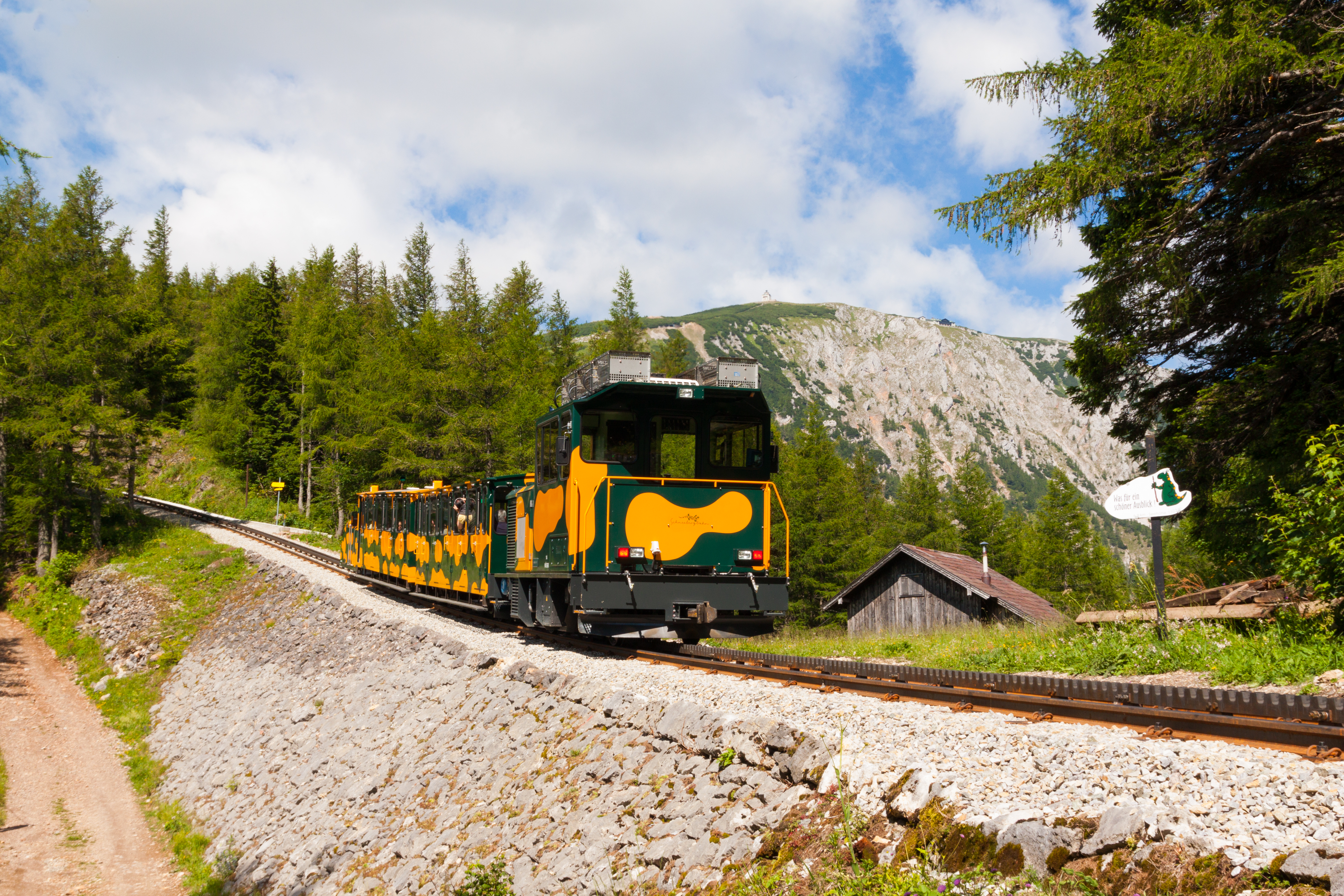 NÖSBB Hm 2/2 with the internal number 14 near the station Baumgartner.